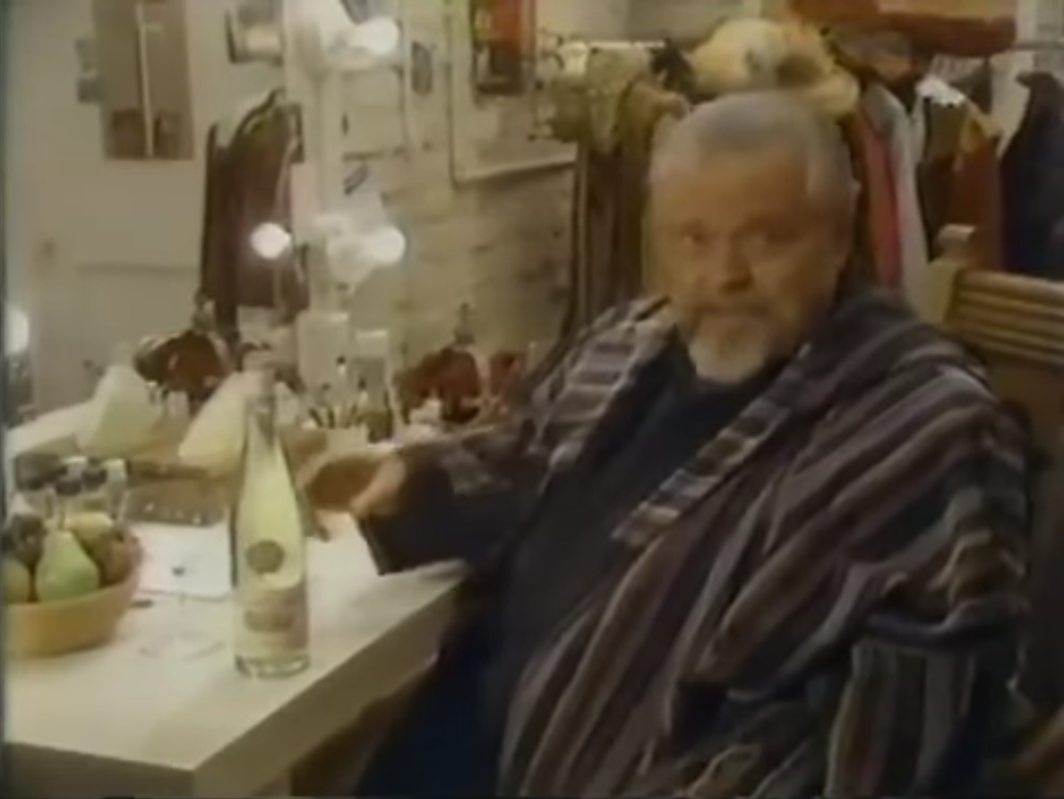 1970s wine advert